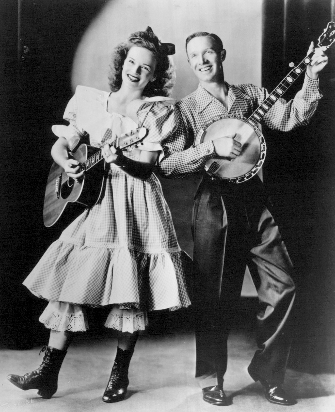 Photo of Lulu Belle and Scotty-Myrtle Cooper and Scott Wiseman-from the radio program National Barn Dance. The couple not only performed together, they were also husband and wife. The item has no copyright markings on it as can be seen in the links above.